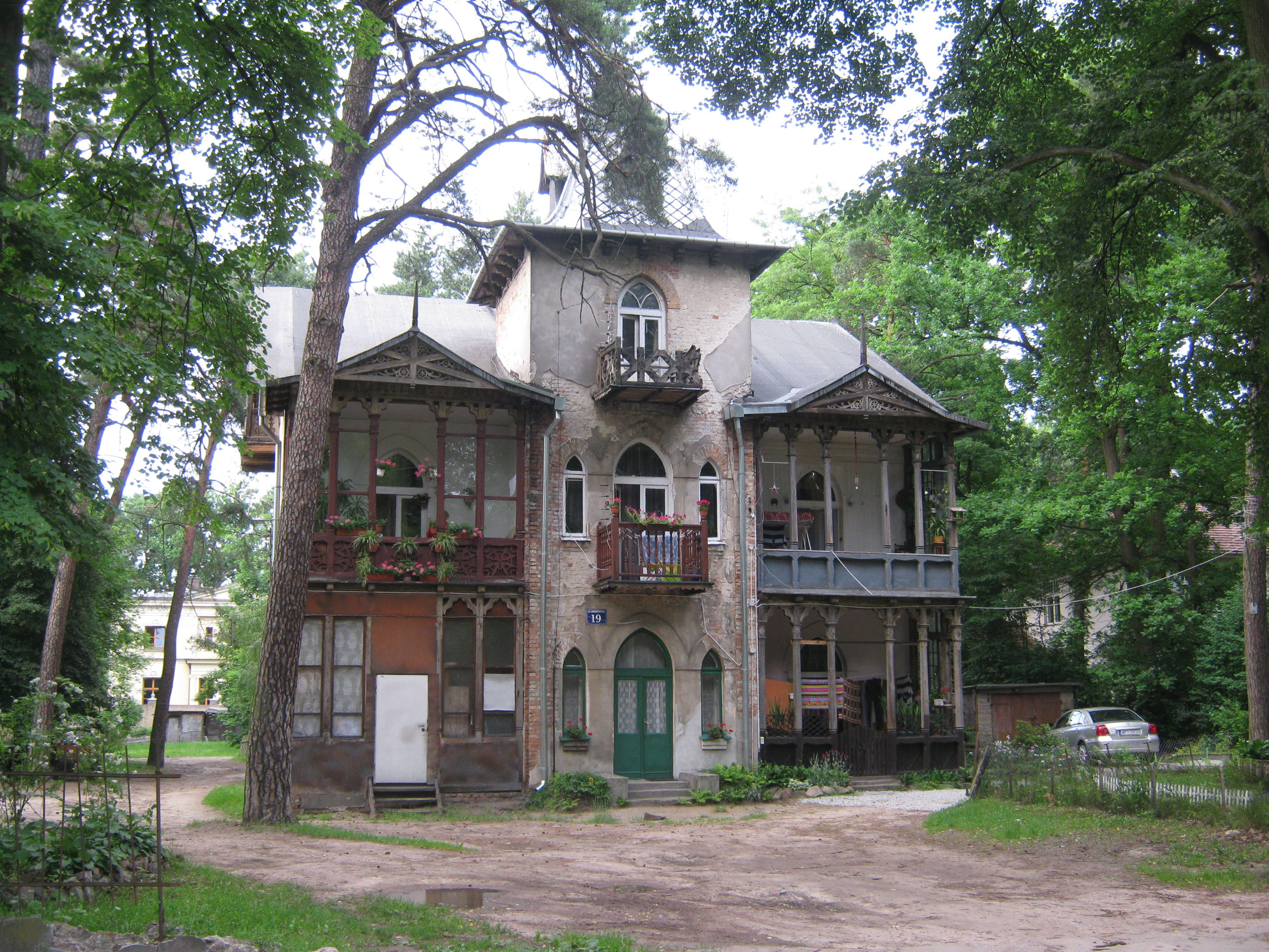 Villa "Maryla", Sienkiewicza Street 19, Konstancin-Jeziorna, Poland. Actual state for summer 2011